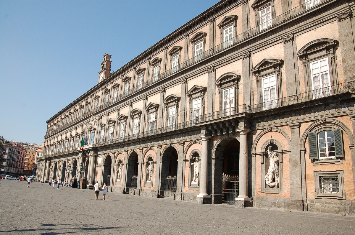 Naples 2010